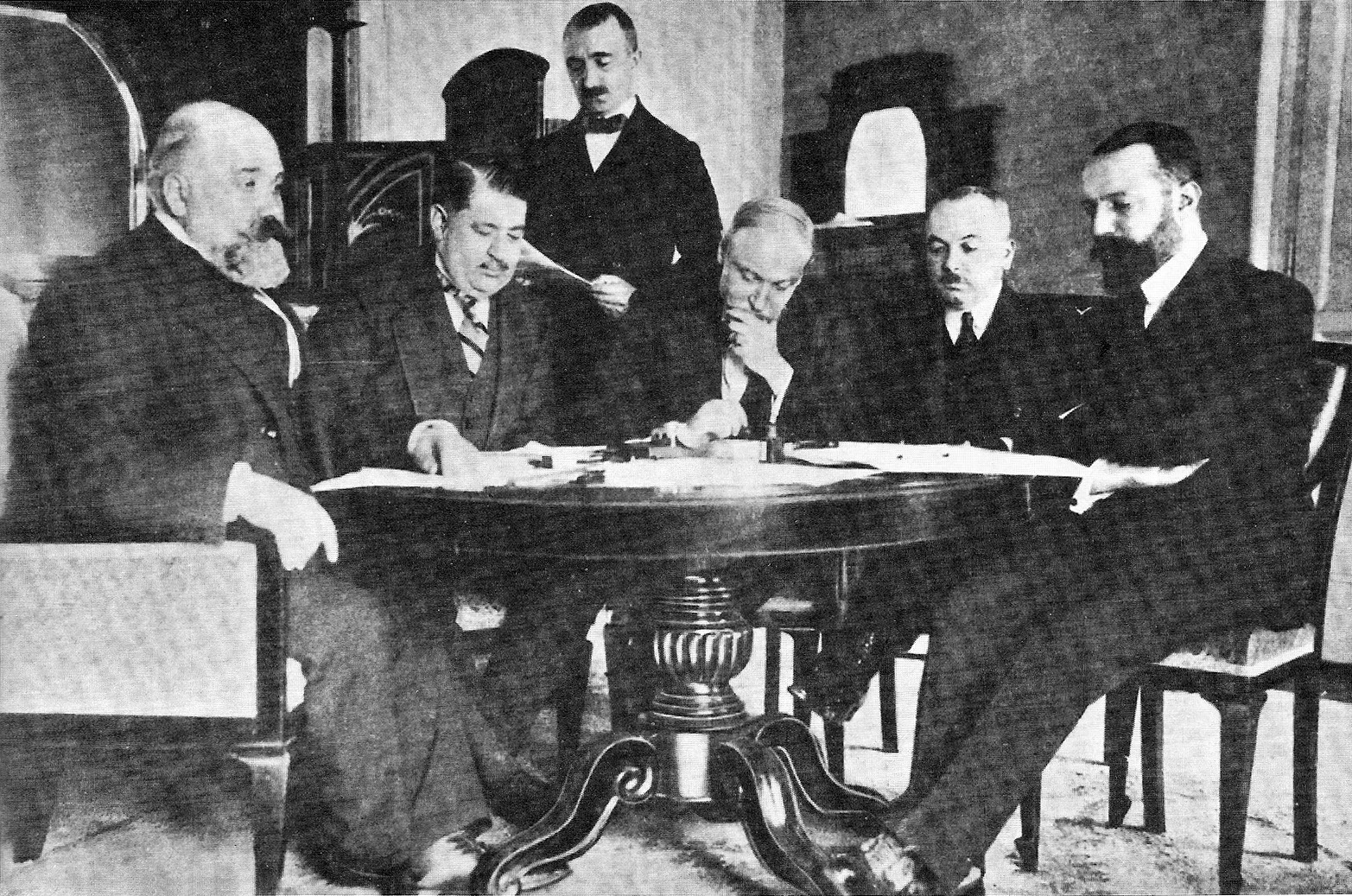 Turkish and Italian delegations at Lausanne for the Treaty of Ouchy, also known as the 1912 Treaty of Lausanne. From Right to left : Giuseppe Volpi, Roumbeyoglou Fahreddin, Guido Fusinato, Mèhemmed Naby Bey, Pietro Bertolini.